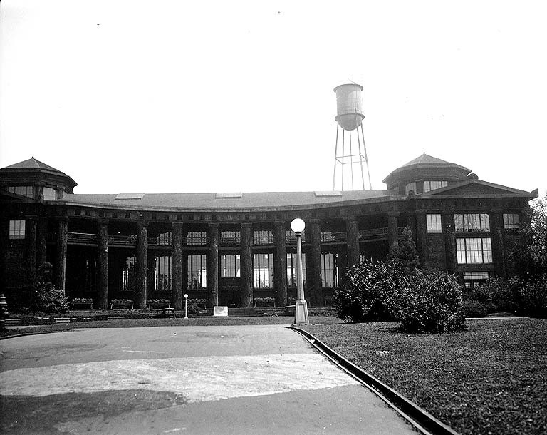 From John Cobb field notebook: Old Forestry Building now housing State Museum, Univ. of Wash. 1922 Built for the Alaska Yukon Pacific Exposition as the Forestry Building in 1909. Subjects (LCTGM): Galleries & museums--Washington (State)--Seattle; Water towers--Washington (State)--Seattle Subjects (LCSH): University of Washington. Museum; Log buildings--Washington (State)--Seattle; Museum buildings--Washington (State)--Seattle; Museums--Washington (State)--Seattle